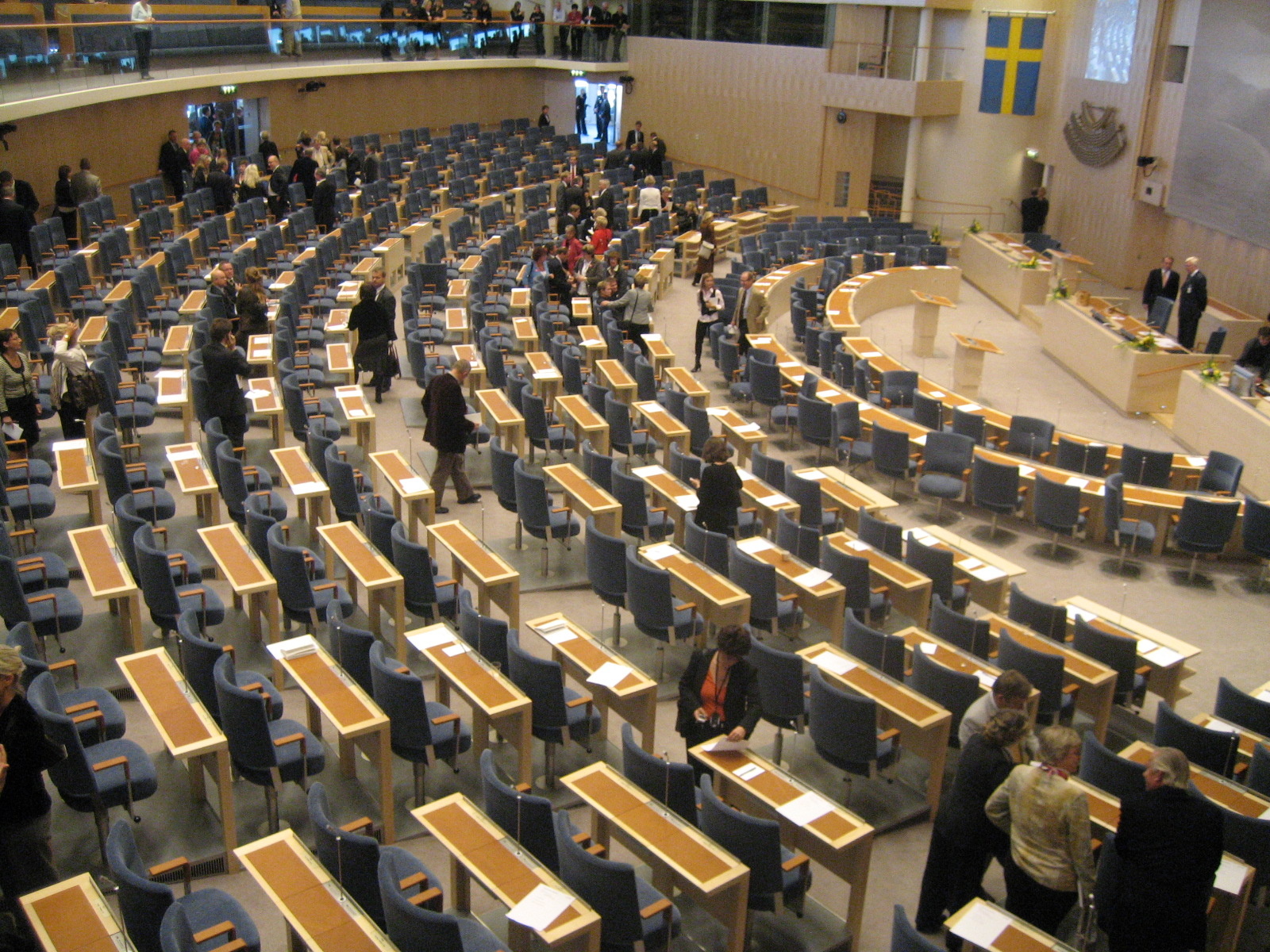 The assembly hall of the Riksdag (the national parliament of Sweden).